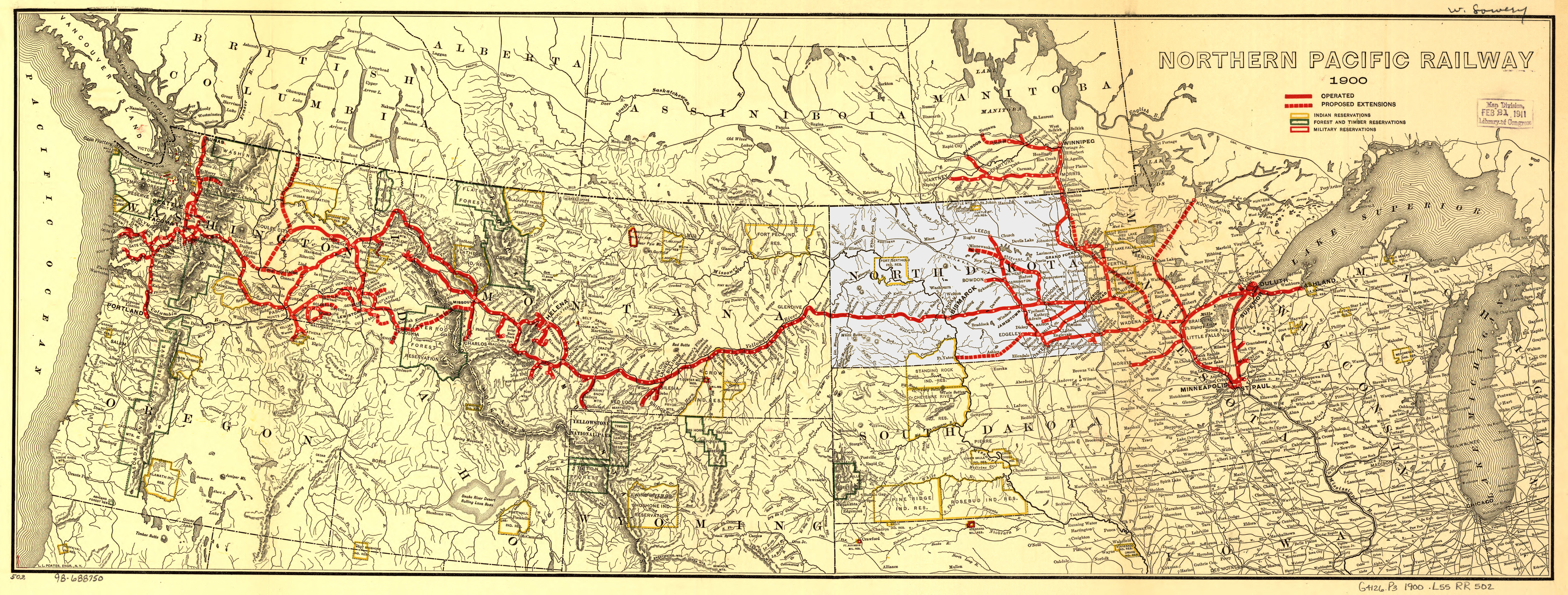 Map showing the Northern Pacific Railway route circa 1900 (highlighted is North Dakota).